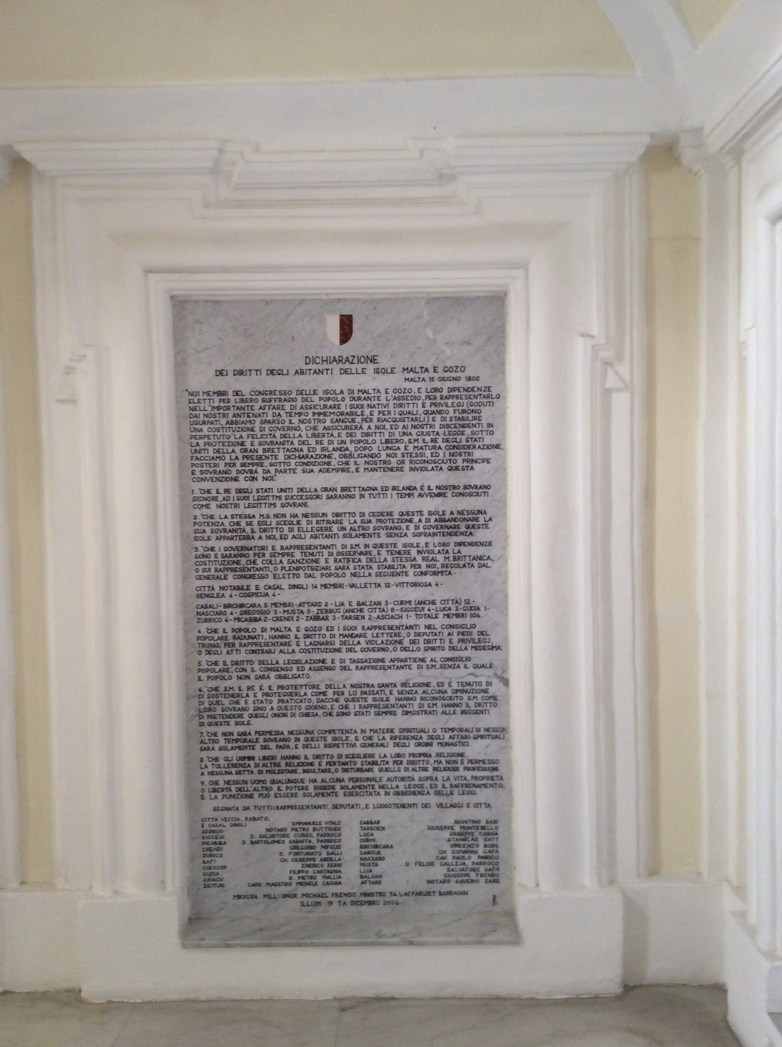 A plaque commemorating the british in malta about maltese rights. Other information None